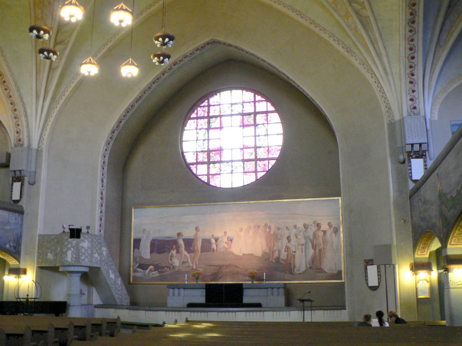 Altar of Tampere Cathedral in Tampere, Finland